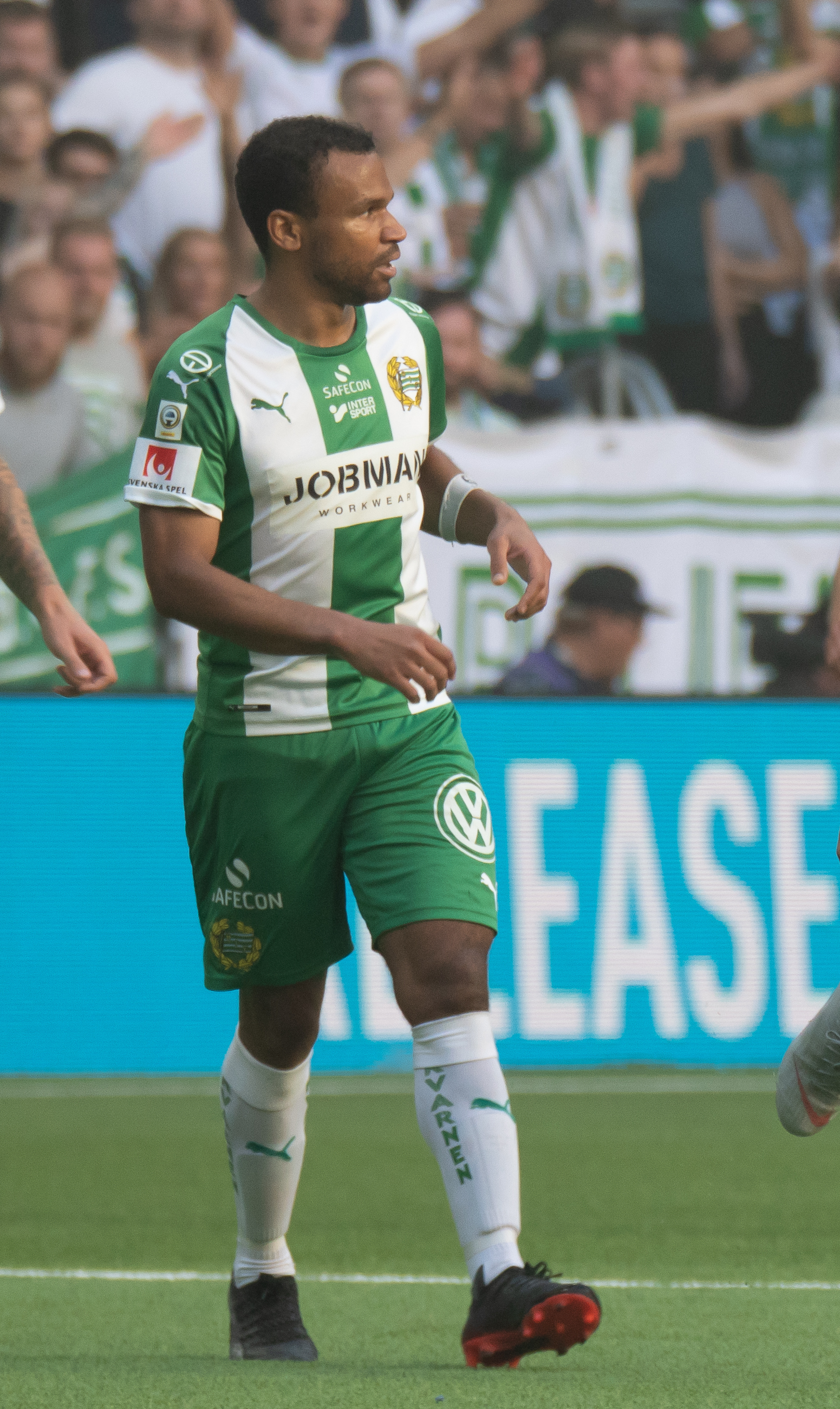 Hammarby-Djurgården 2018-09-03, Martinsson Ngouali cropped